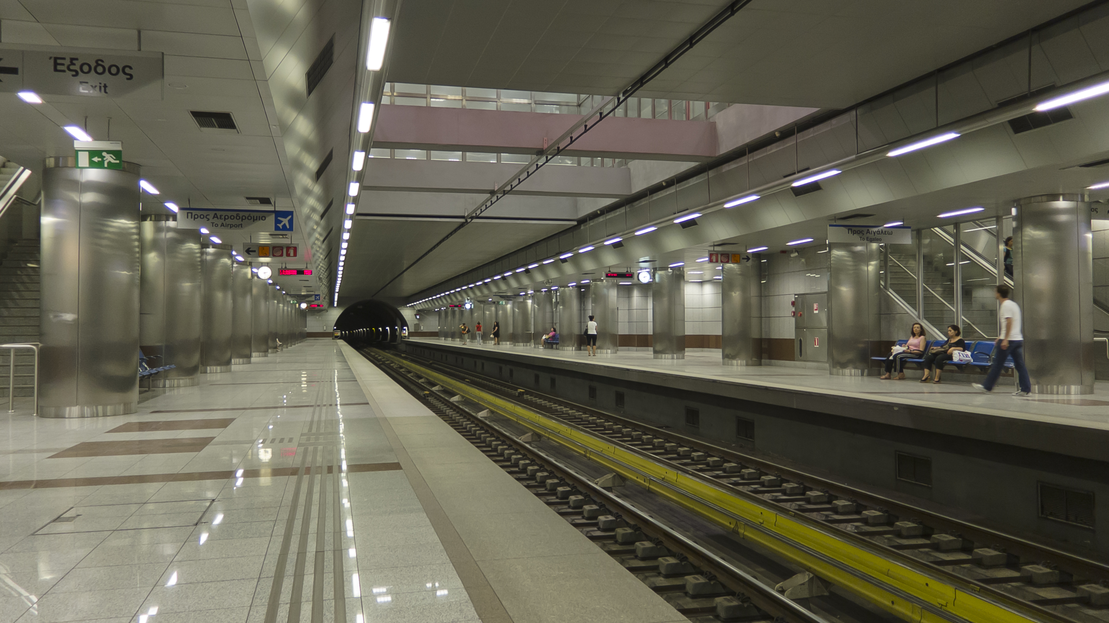 Halandri Metro Station, North Athens (2012) No description providedHalandri Station